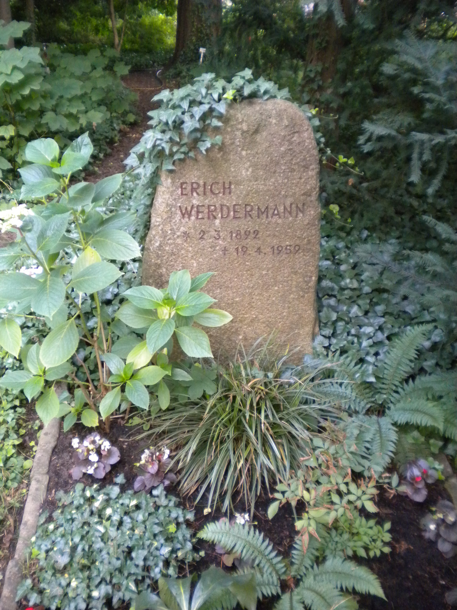 tomb of Erich